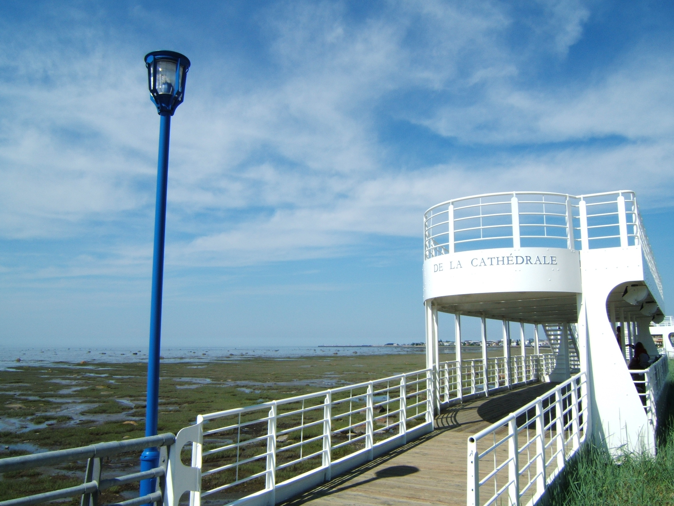 The walk of the sea in Rimouski at low tide.